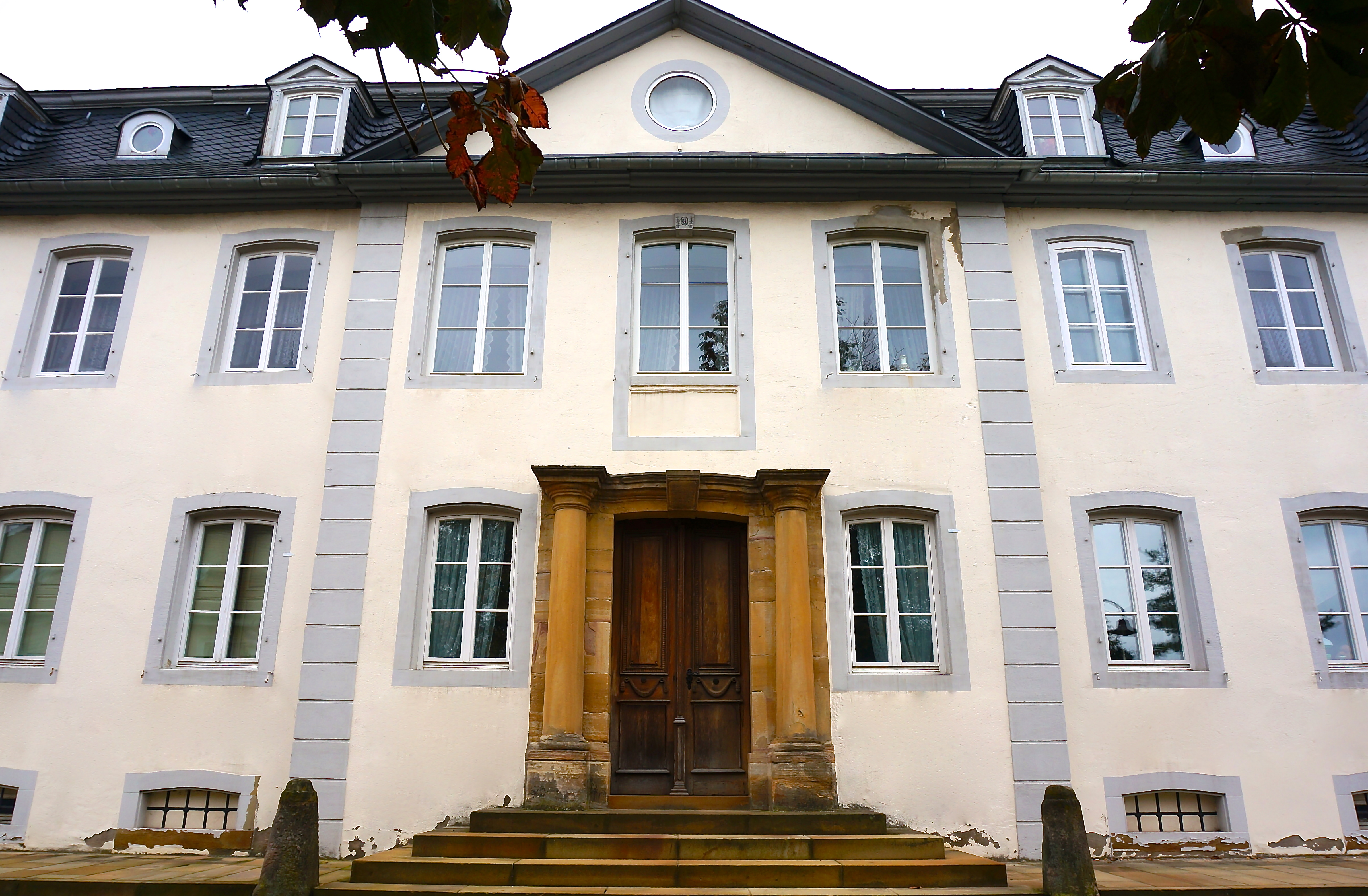 Chateau Wendelsheim